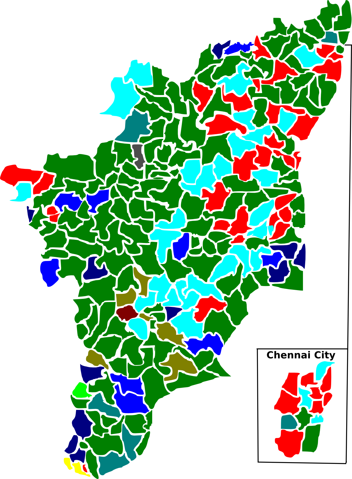 made election map using borders from ECI website using Inkscape. Results based on ECI website. [1]